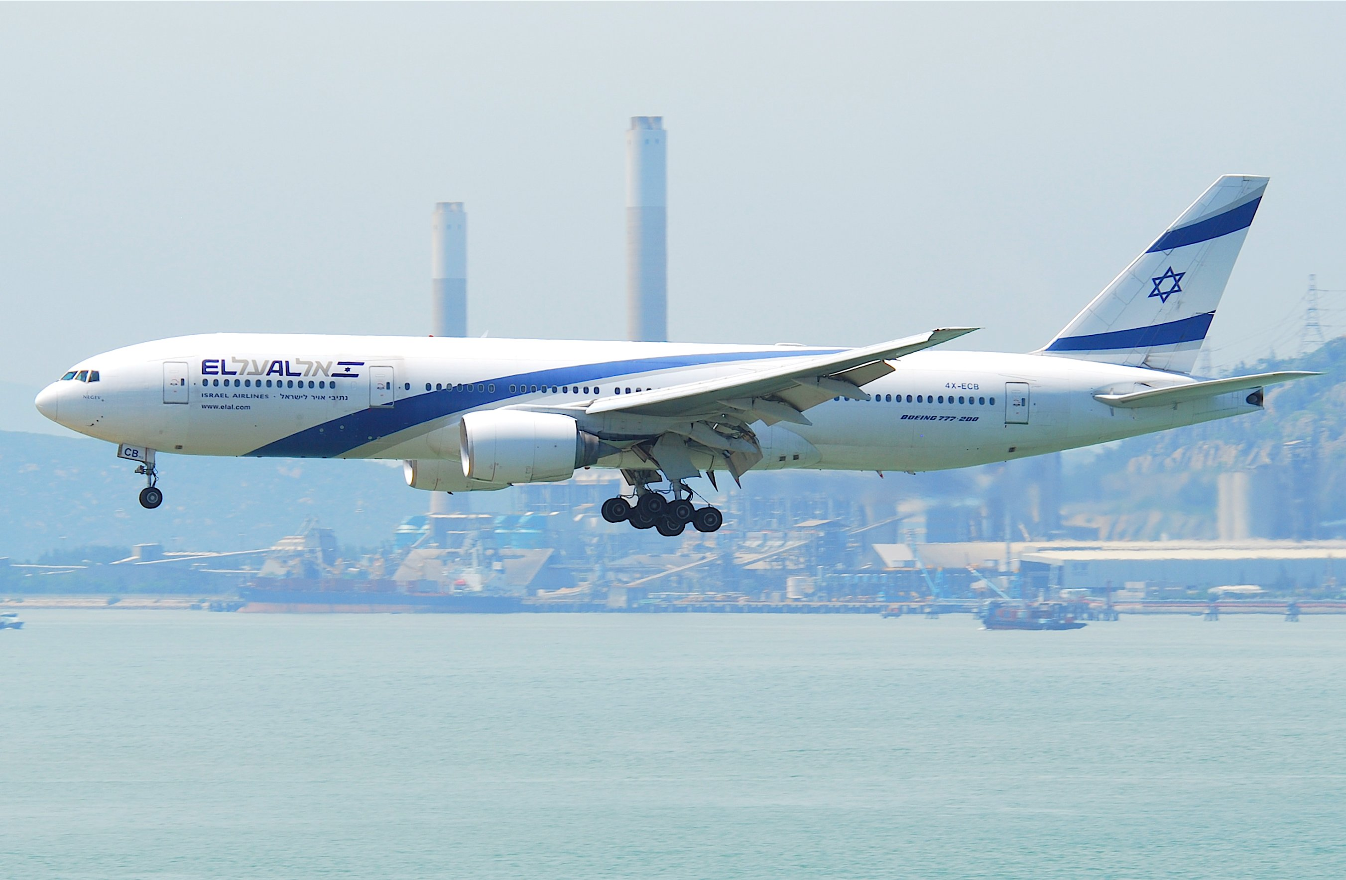 This Boeing 777-258 ER took its first flight on February 9, 2001...